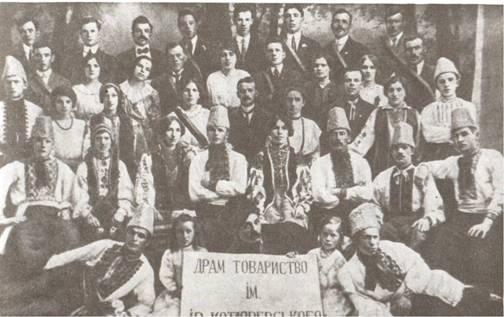 Ukrainian dramatic society in Winnipeg (Canada), 1914